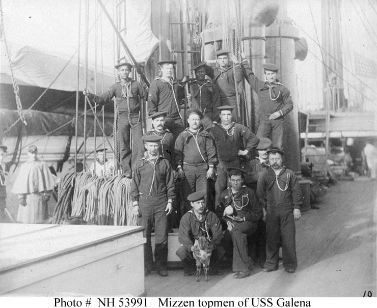 "Mizzen top men of USS Galena", circa 1880s